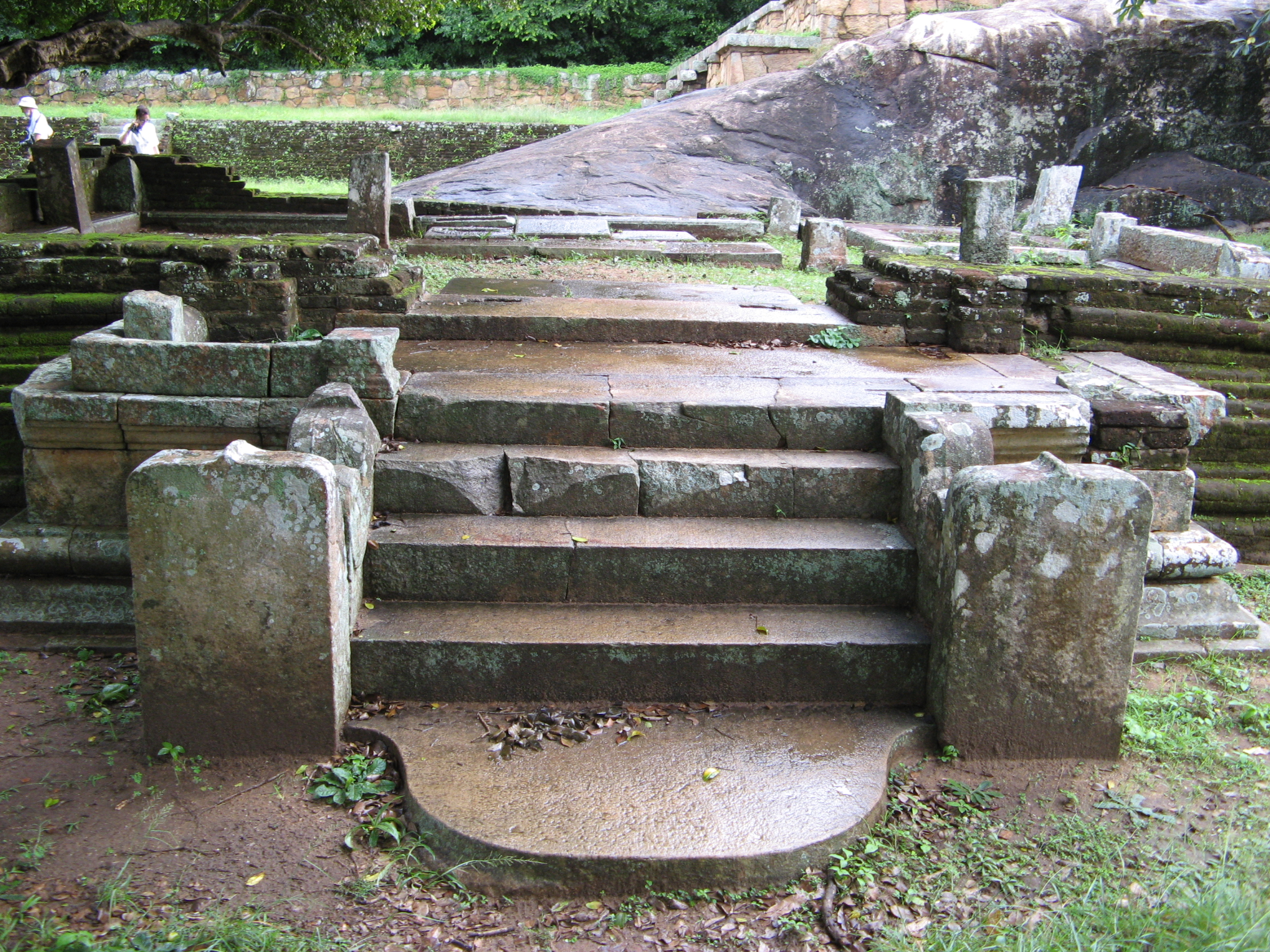 Kaludiya Monastery, Mihintale The entrance to the monastery is accented by a pair of simple, uncarved guardian stones that flank an undecorated moonstone set into the pavement just below the entrance steps.